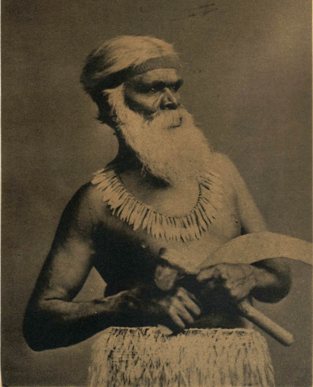 "Kaawirn Kuunawarn (Hissing Swan), Chief of the Kirrae Wuurong (Blood Tip Tribe)"